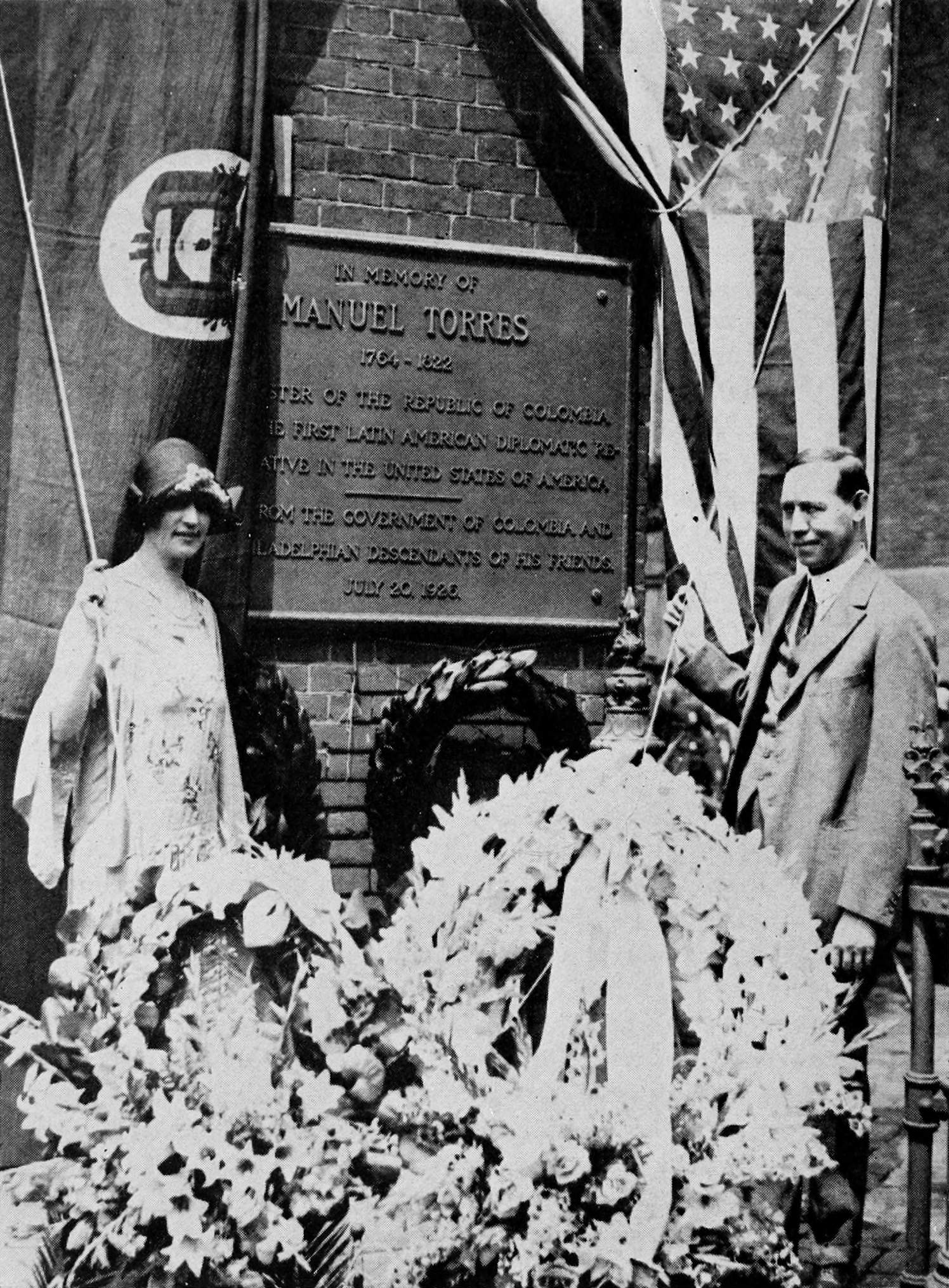 Enrique Olaya, Minister of Columbia, and his wife, draw back the flags of Colombia and the United States to reveal a bronze plaque to Manuel Torres, a Spanish American revolutionary who lived in Philadelphia. The plaque was placed at St. Mary's Church, where Torres is buried.